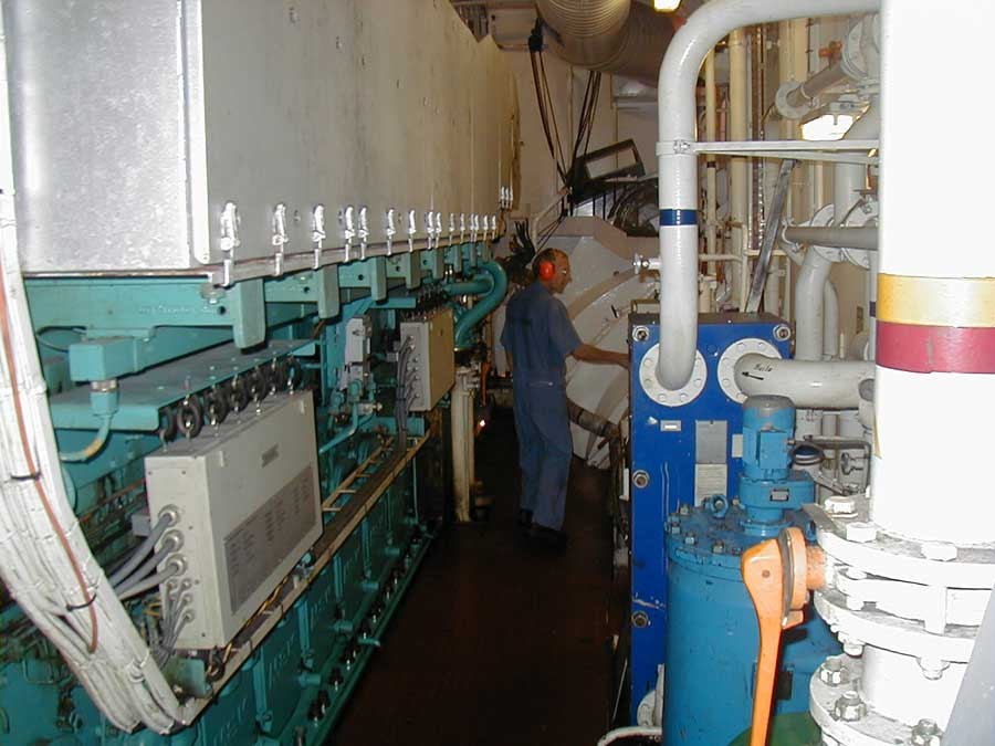 The main engine of the Chassiron : MAK 8M32, 600 rpm.